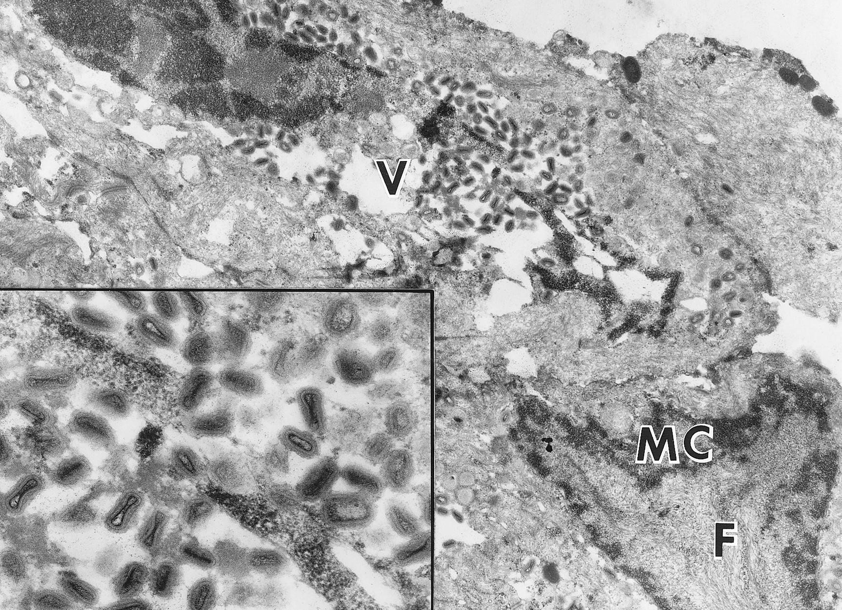 23.3. Electron micrograph of an epidermal cell with cytoplasmic degeneration and numerous poxvirus particles (V); a second cell has marginated chromatin (MC) and a filamentous matrix (F) in the nucleus, which corresponds to the central nuclear clearing seen histologically. Insert shows typical poxvirus particles. (Courtesy of D. A. Gregg.)